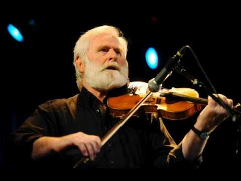 John Sheahan concert